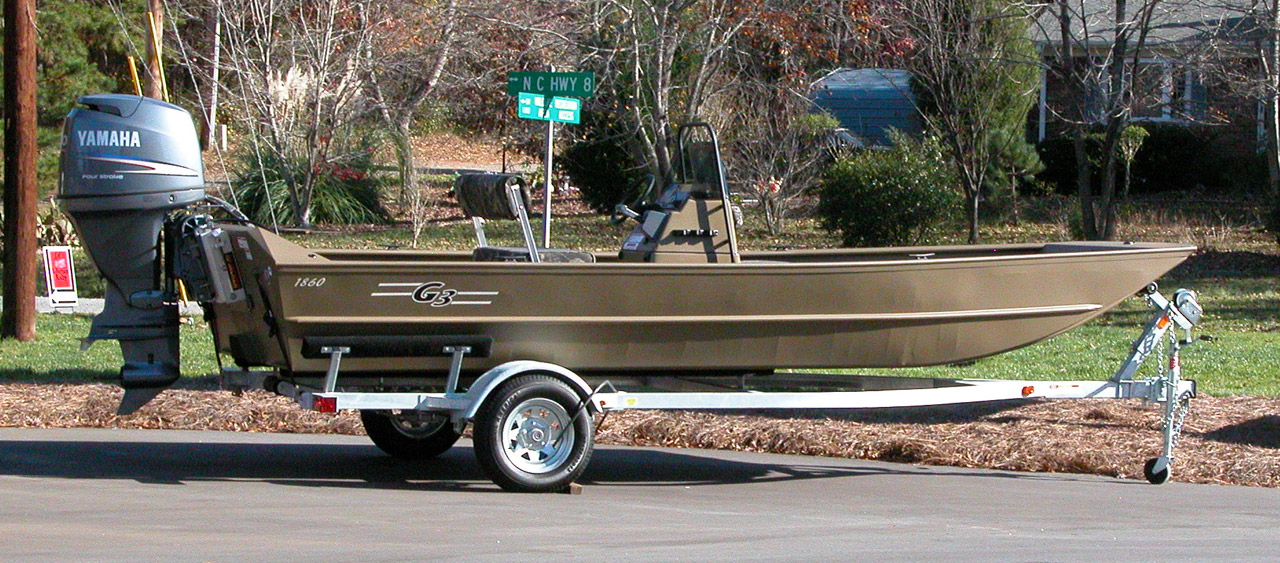 Bass boat, aluminum, center console, on trailer